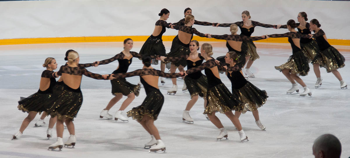 Golden Blades, Tappara, 2nd qualifiers for Finnish Championships 2010, short program, Helsinki